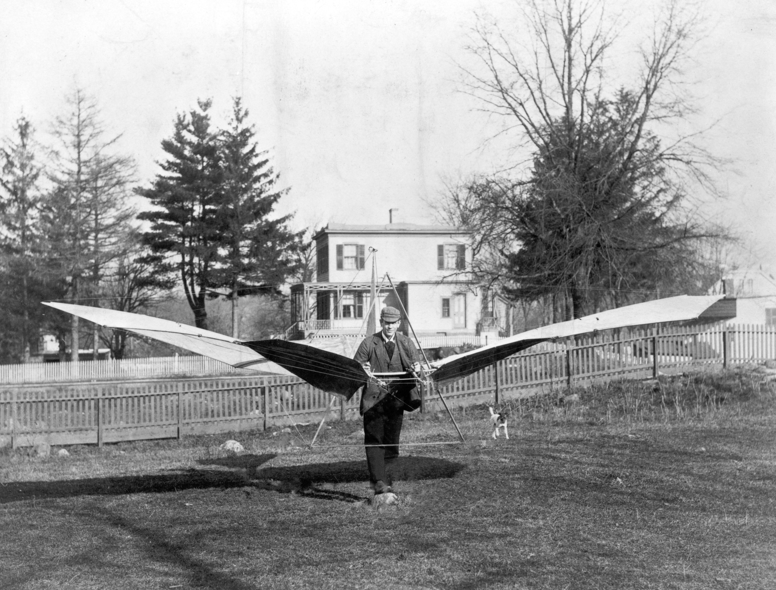 Augustus Moore Herring (1867 — 1926) with his early glider